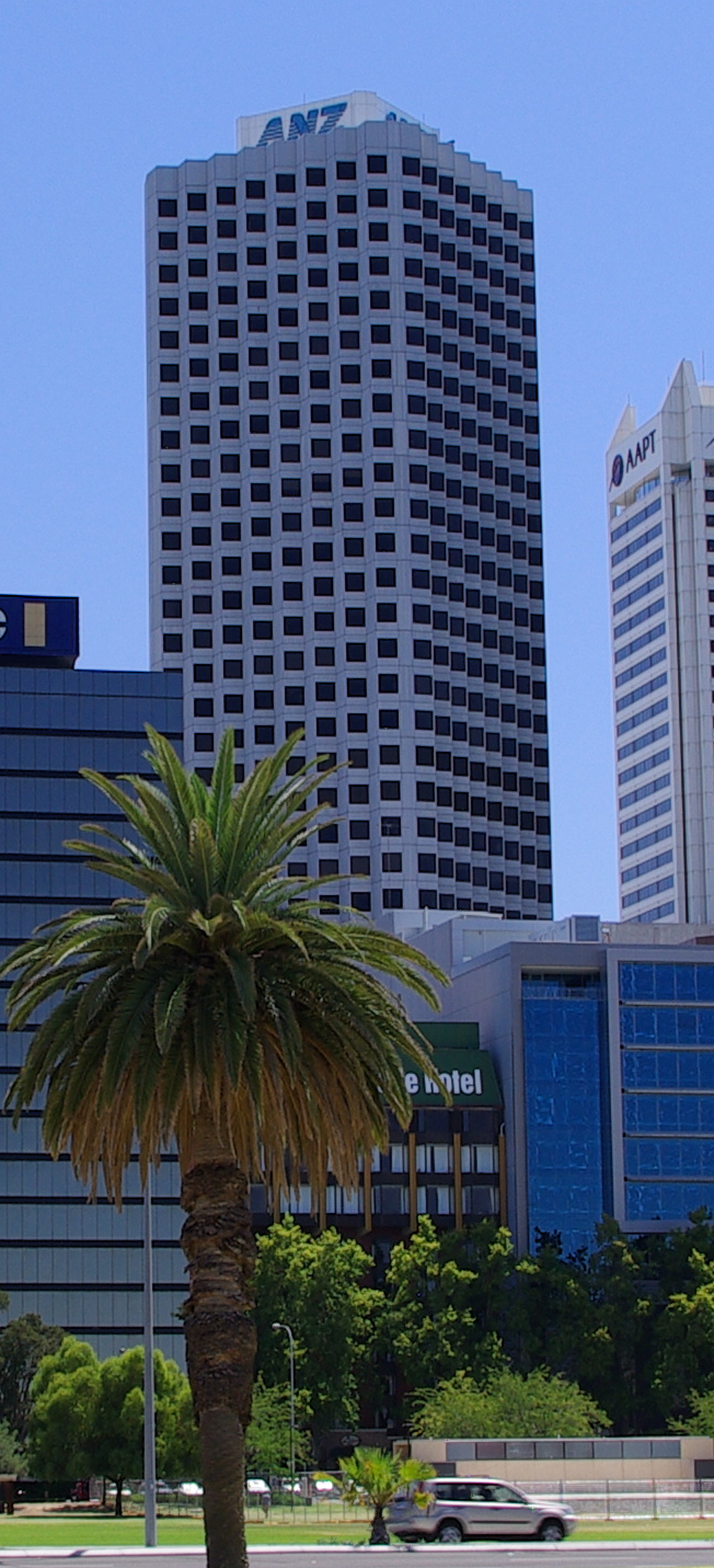 Allendale Square in Perth, Western Australia, viewed from the south.